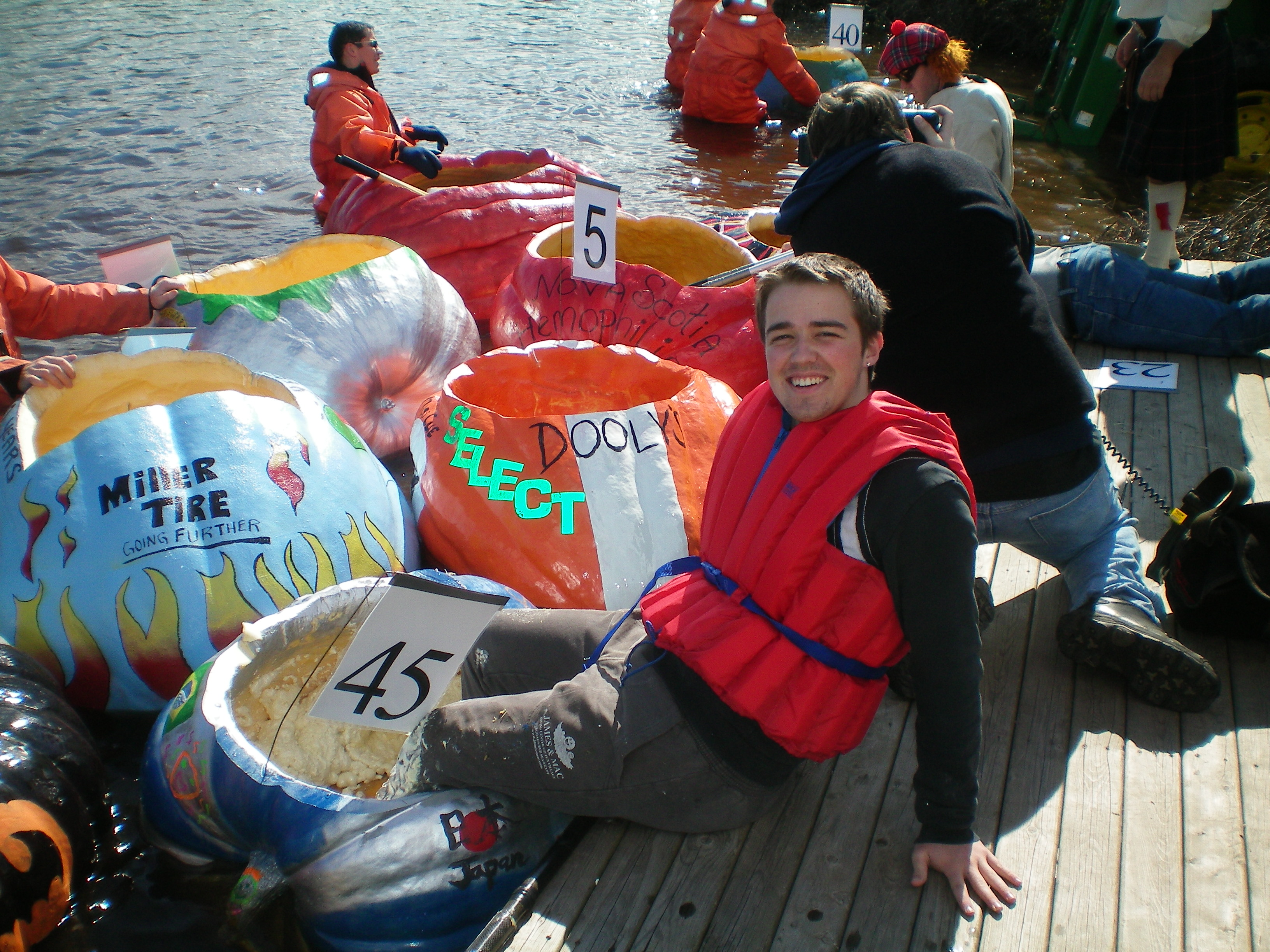 A picture of some Pumpkins in the 2008 Windsor Pumpkin Regatta